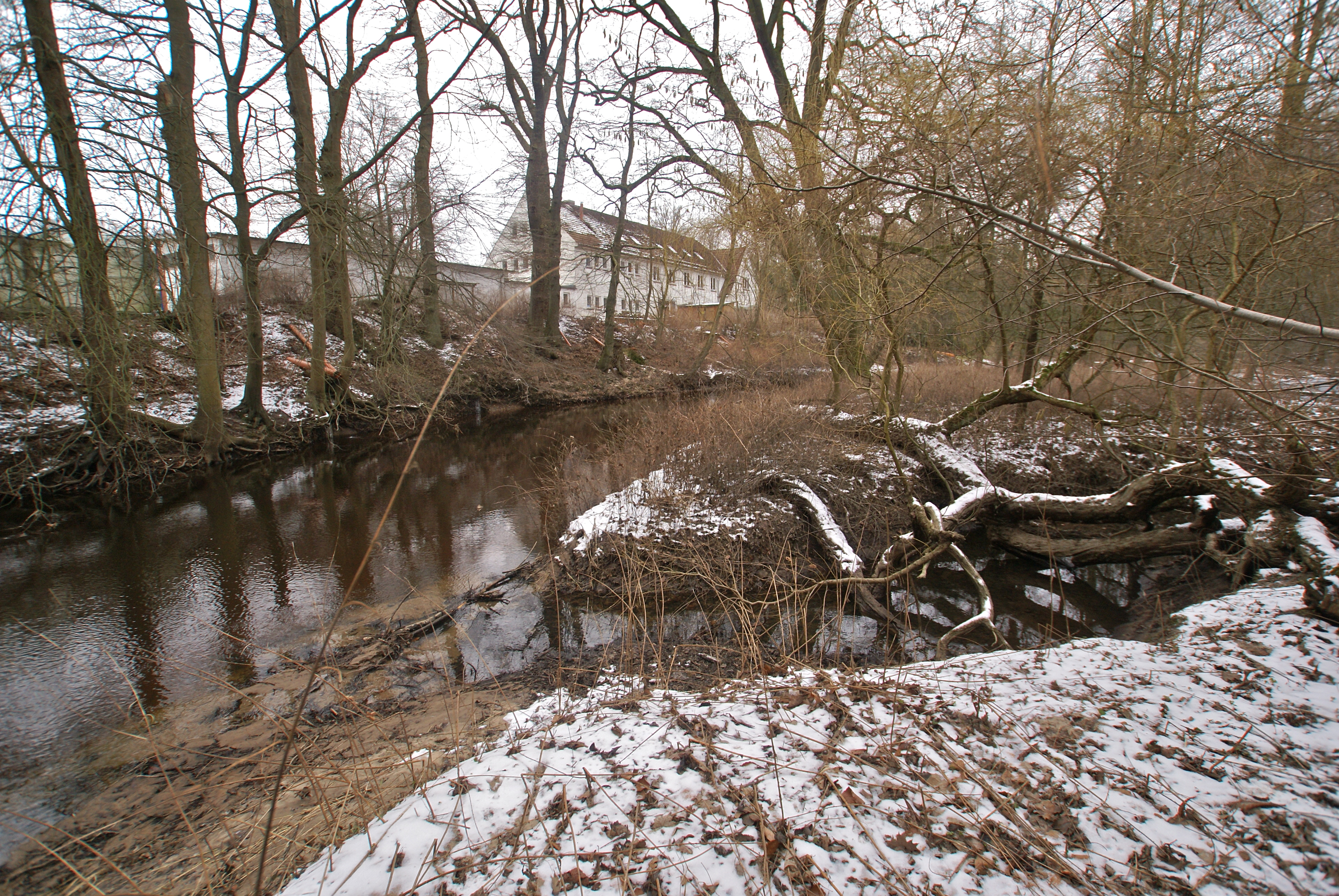 Hamburg (Bergstedt), Germany: Confluence of the rivers Rodenbek (right) and the Alster (left)